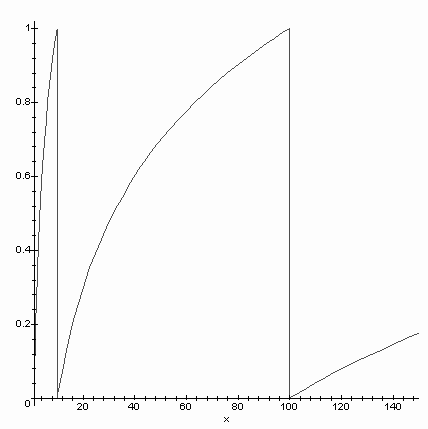 mantissa of decimal logarithm function